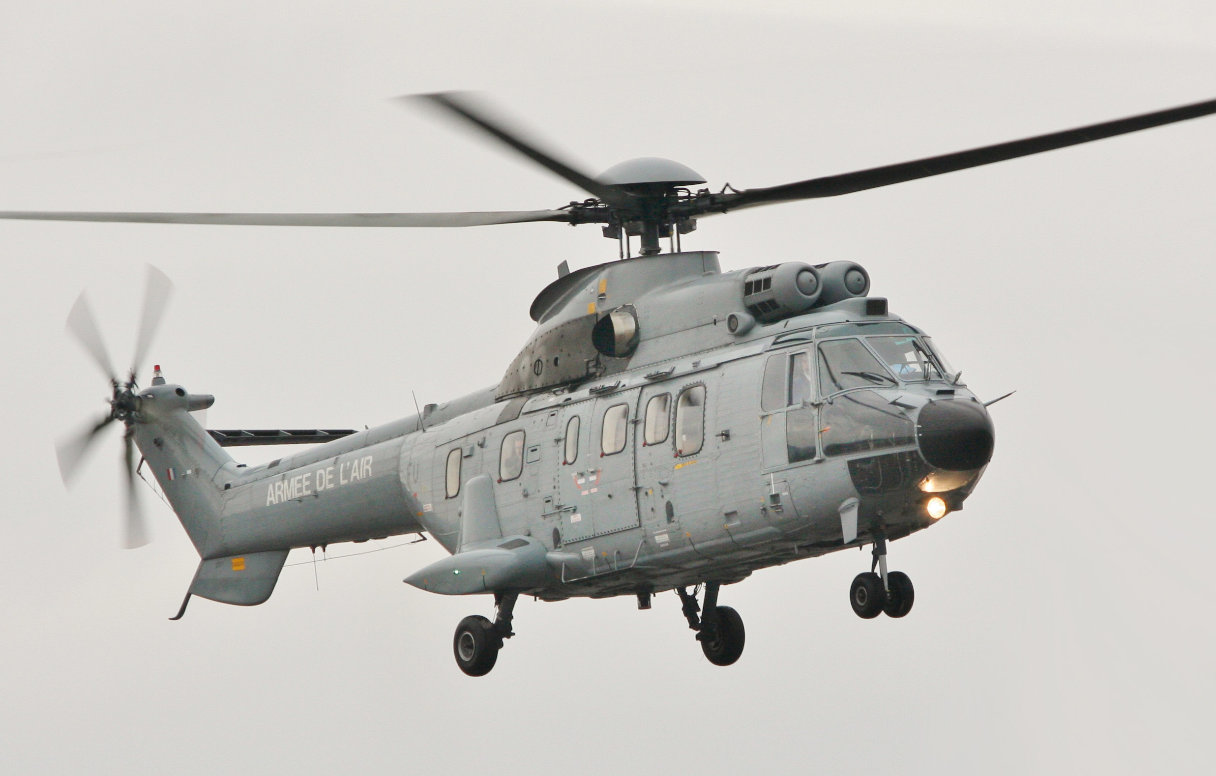 Armée de l'Air AS532